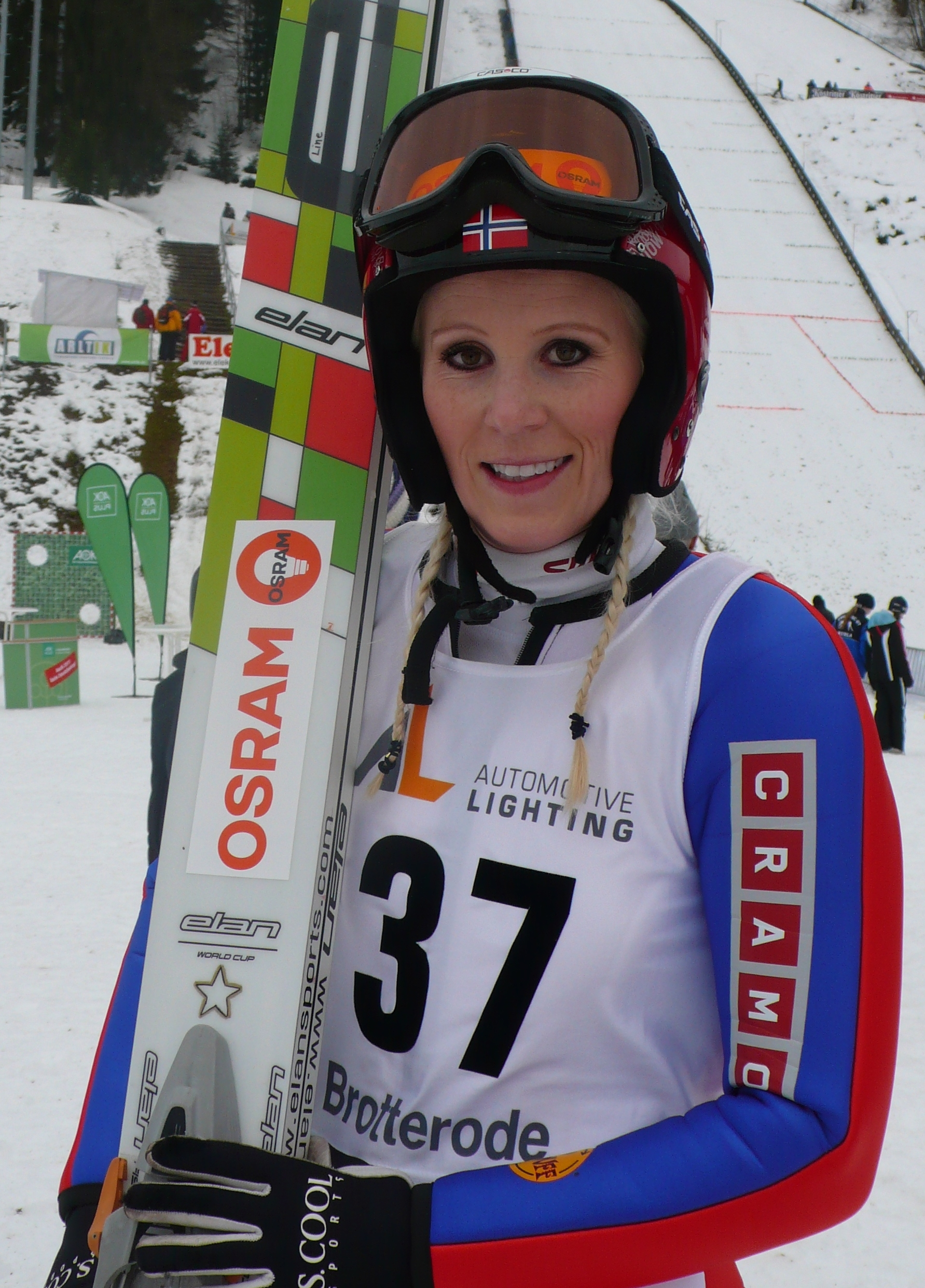 Line Jahr